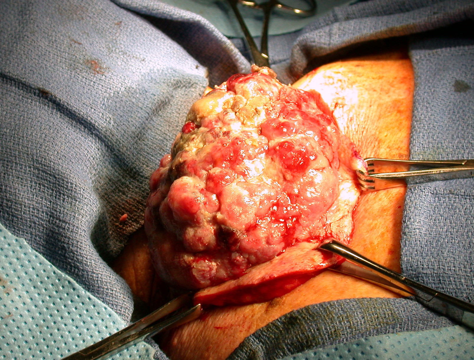 This tumor grew back, despite two previous attempts at removal. Melanoma is caused by exposure to sunlight and tanning booth light. One or more severe sunburns in your teens and twenties are especially harmful. Pathological and histological images courtesy of Ed Uthman at flickr.